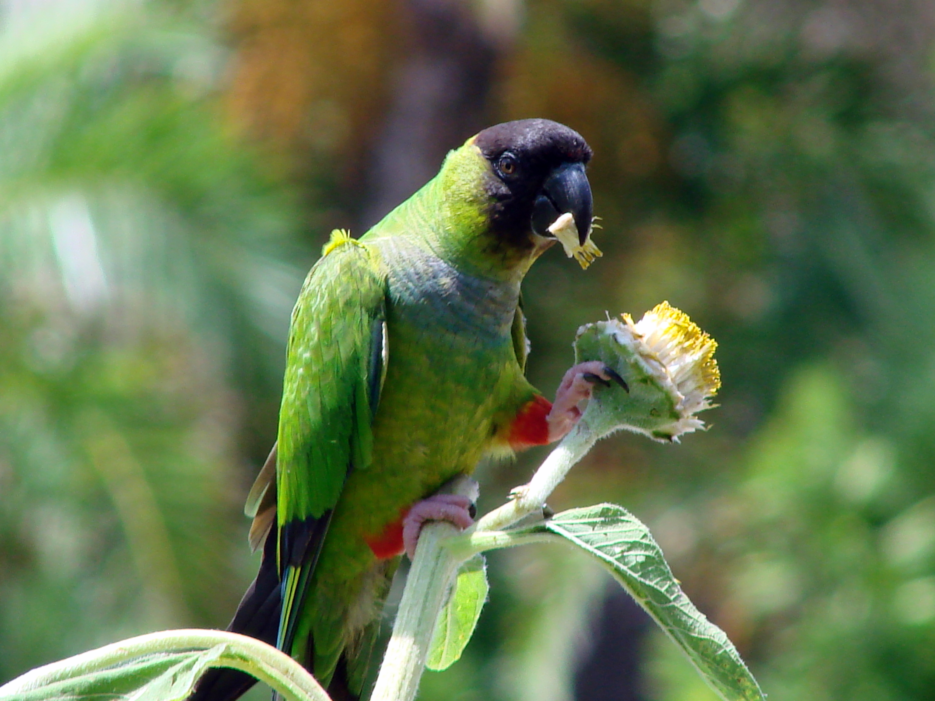 Feral Nanday Parakeet (also known as the Black-hooded Parakeet or Nanday Conure) eating sunflower seeds in a garden in Sarasota, Florida, USA.